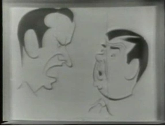 Caricature of Abbott and Costello shown during the end sequence on the Colgate Comedy Hour in 1951. Screen capture from the link shown, brightened and contrast adjusted.